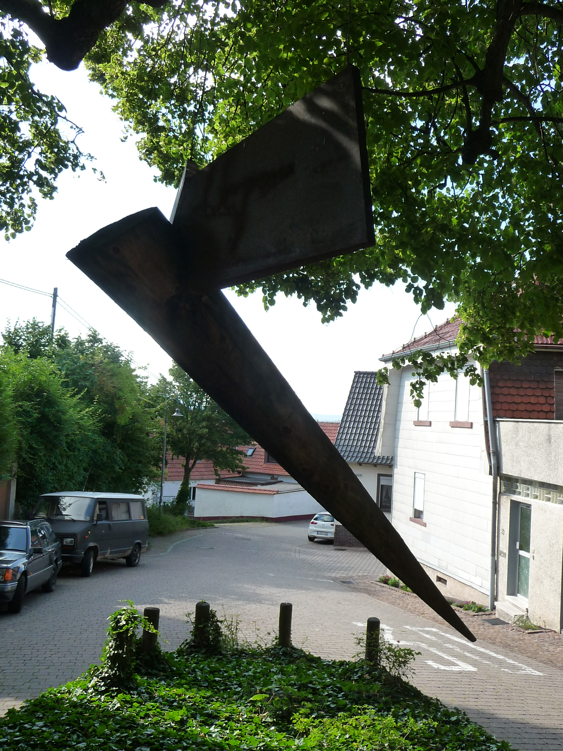 Tiefenthal is a municipality in the Bad Dürkheim district in Rhineland-Palatinate, Germany.